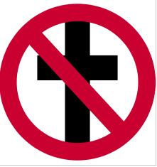 This picture is a logo of Bad Religion (Grupo de Punk Rock).